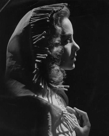 Elisa Christian Galve-actriz